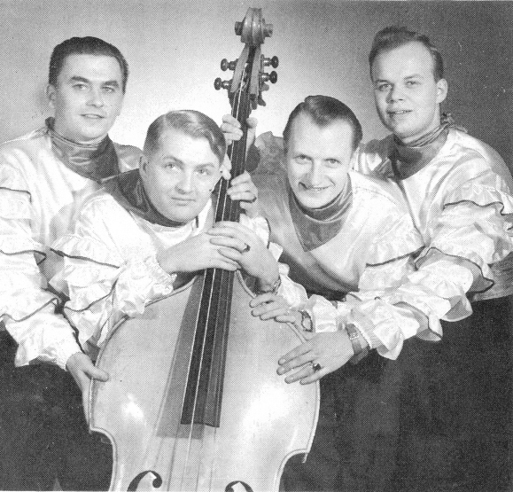 Publicity photograph of the Usko Viitanen Orchestra (Usko Viitasen orkesteri). From left: Matti Salonen, Usko Viitanen, Eino Airaskorpi, Pekka Pihkanen.